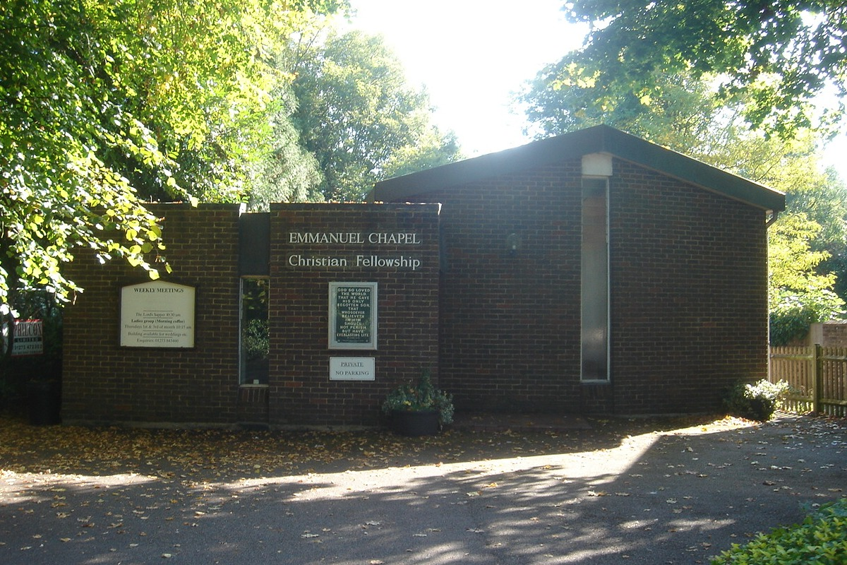 Emmanuel Chapel, South Street, Ditchling, District of Lewes, East Sussex. An Evangelical church.